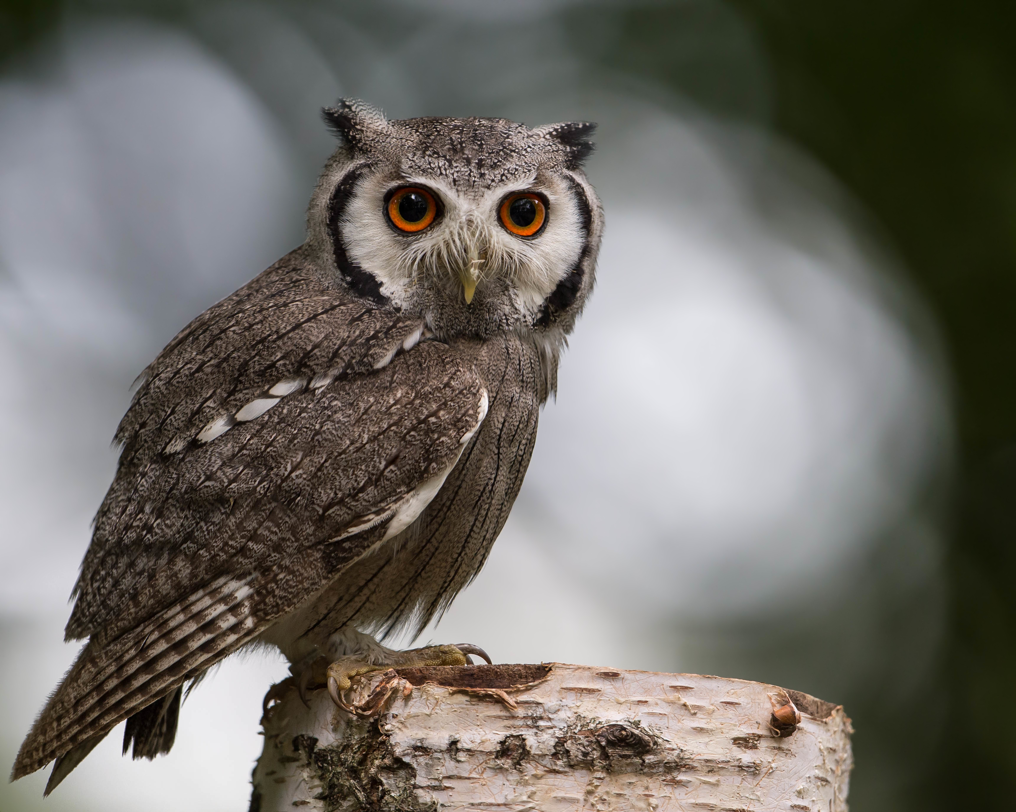 Southern White-faced Owl (Ptilopsis granti). Hawk Conservancy Trust (Captive). Andover, England